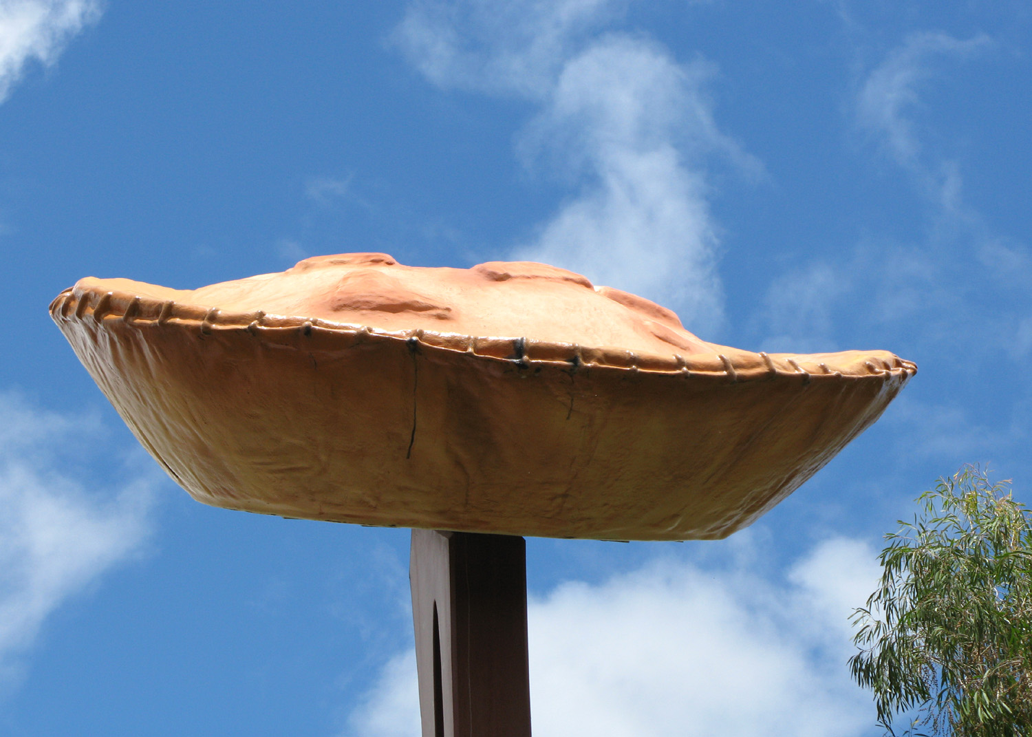 The Big Pie, Yatala (QLD)